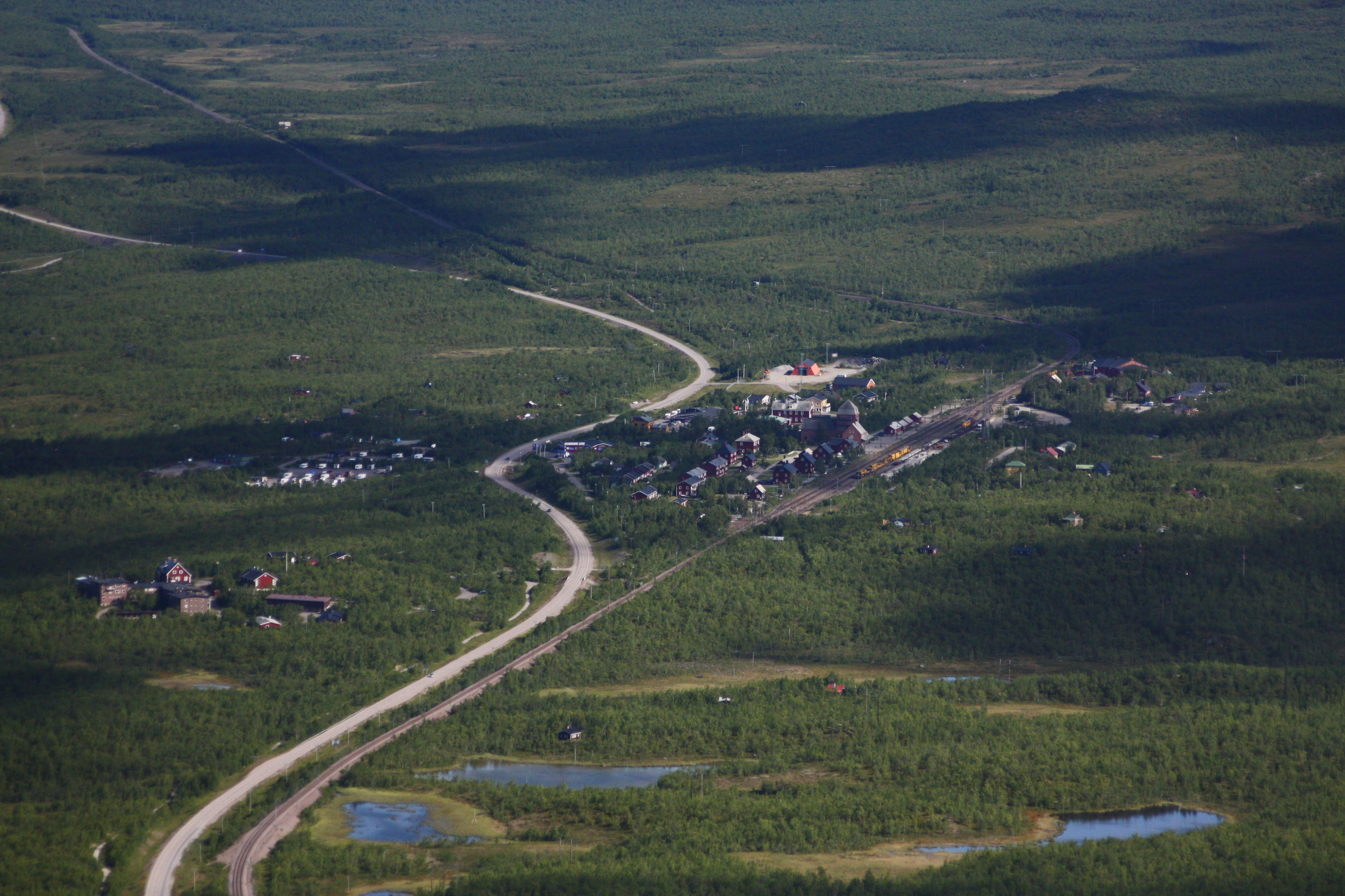 View towards Abisko Östra, as seen from the slopes of Mount Nuolja in Abisko National park. Abisko Scientific Research Station is visible on the left side of the image.